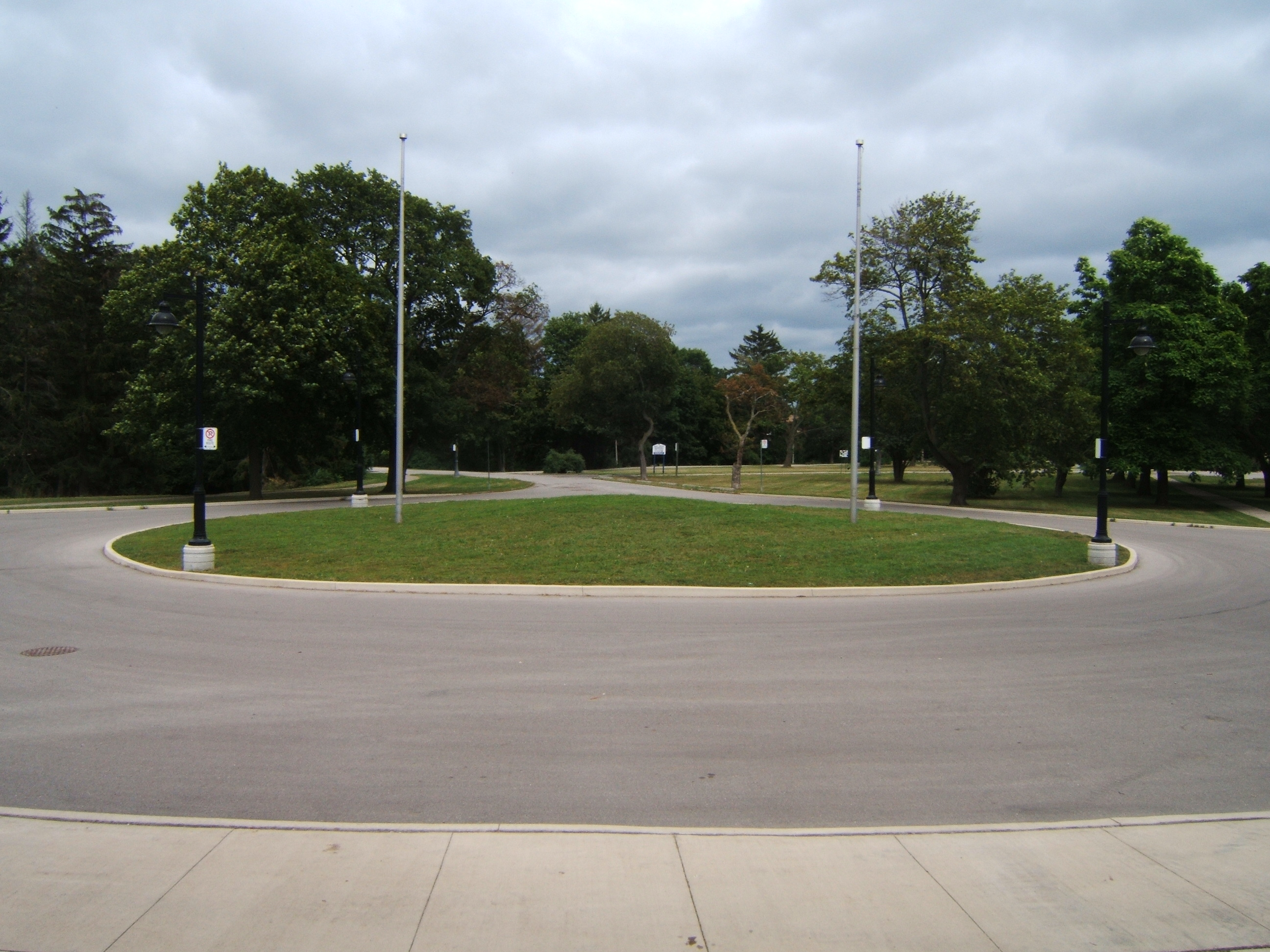 Roundabout in front of the building which used to be the Lakeshore Psychiatric Hospital, later the filming location of the movies Police Academy 1,3 and 4; now part of Lakeshore Campus of Humber College, Toronto, Ontario, Canada